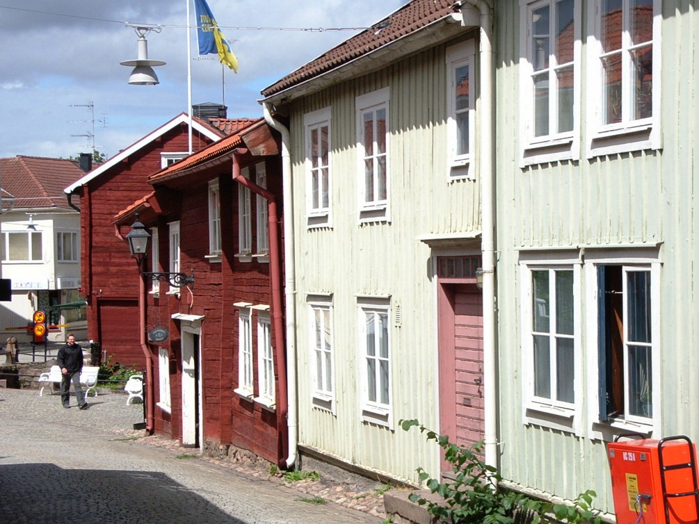 Eksjö, Sweden. Wooden houses in old town.